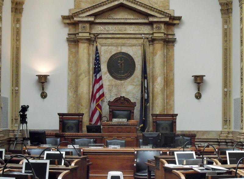 The chamber of the Kentucky Senate